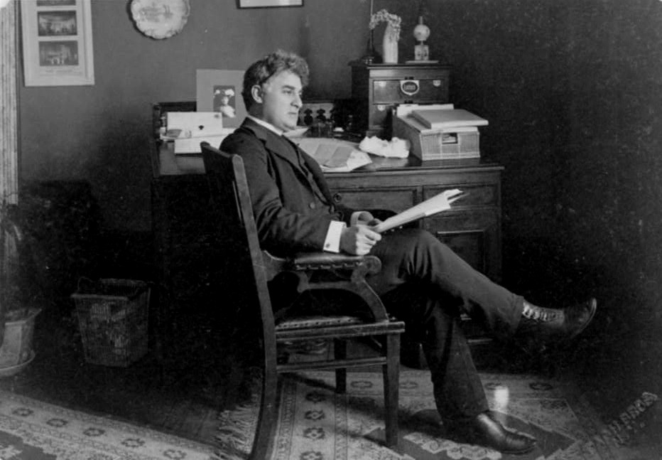 David Belasco, full-length portrait, seated at desk, facing right.